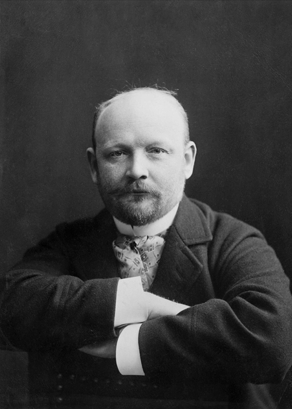 Depicted person: Alf Wallander, FORMGIVARE